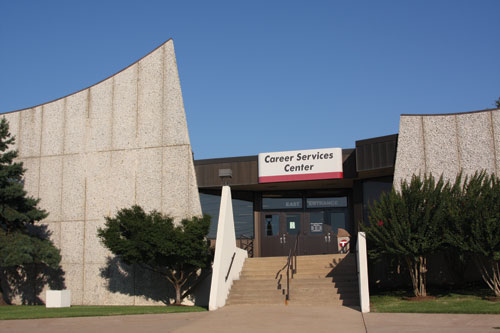 TTC Career Services Campus